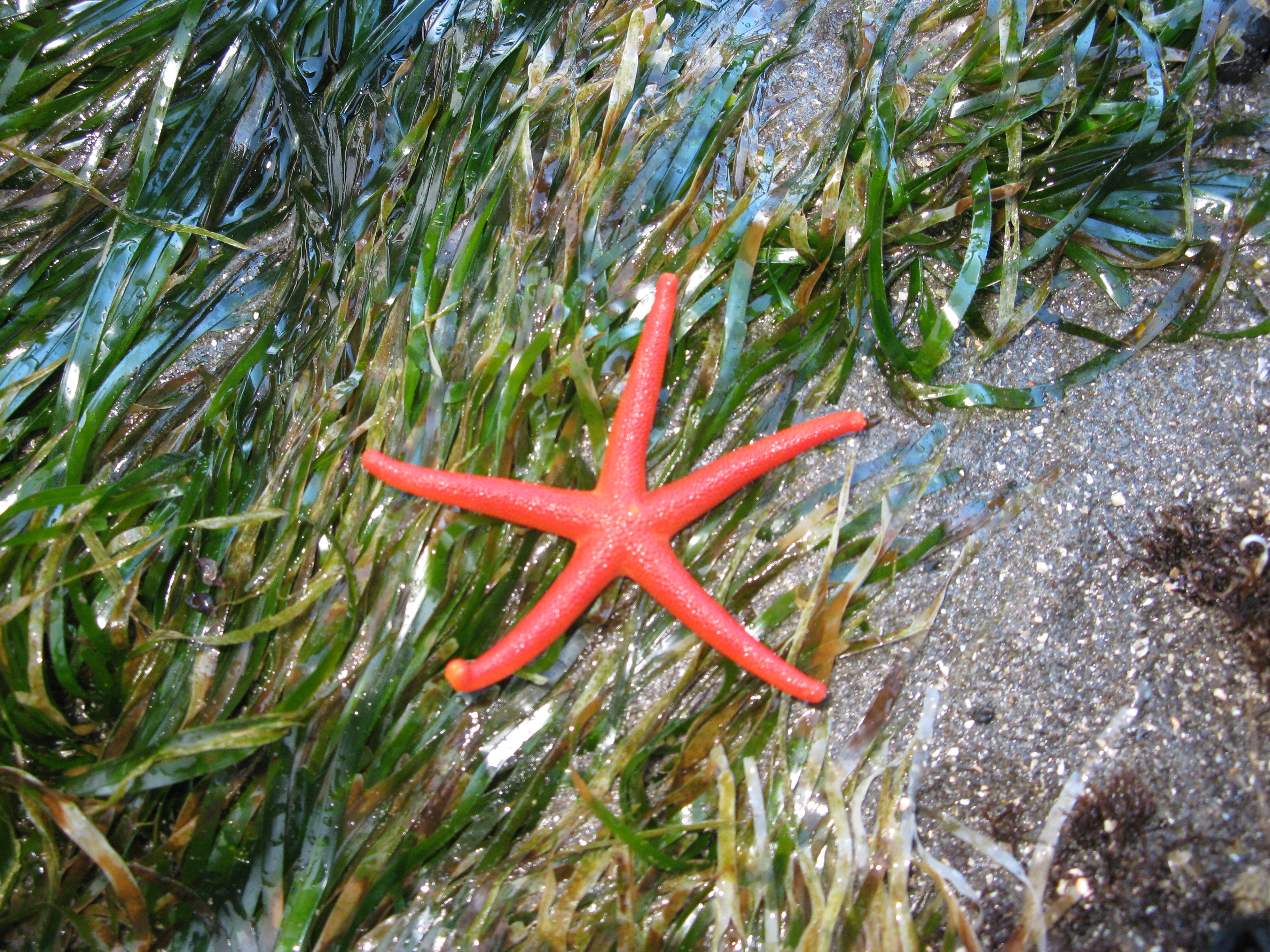 Pacific Blood Star in tidepools at Rialto Beach